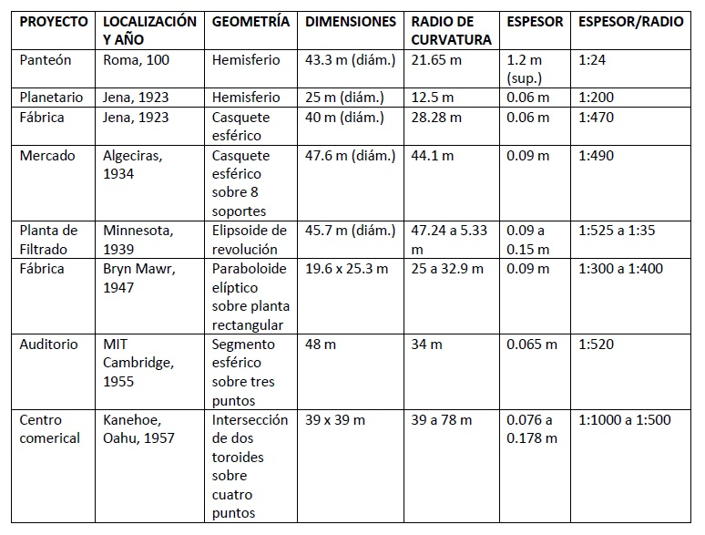 Tabla espesores en la historia